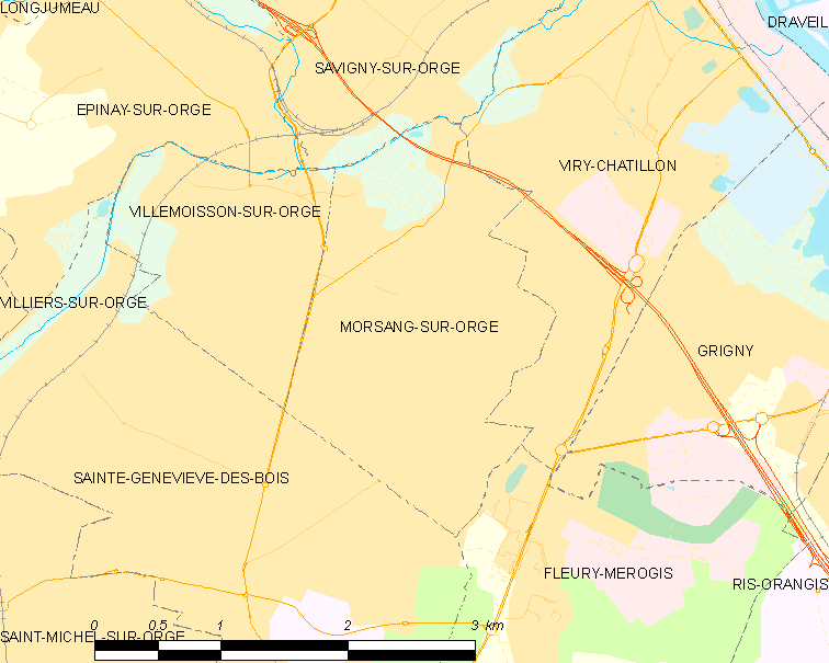 Map of French municipality Morsang-sur-Orge